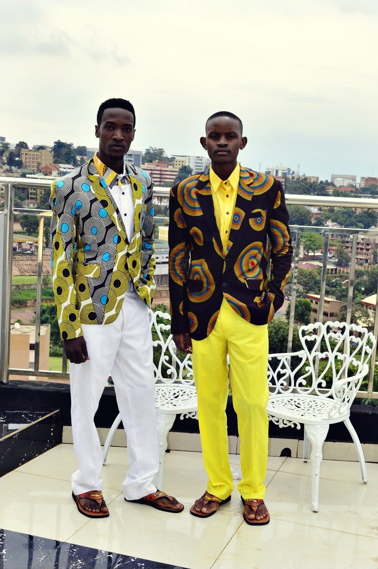 Eguana Kampala s/s 15 lookbook models ISOM This is an image of Cultural Fashion or Adornment from Uganda